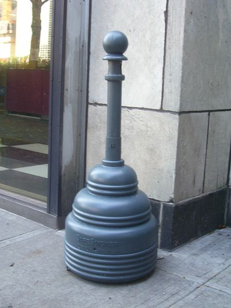 Safe Smoker cigarette butt disposal receptacle. Photograph credit: Rodsan18.